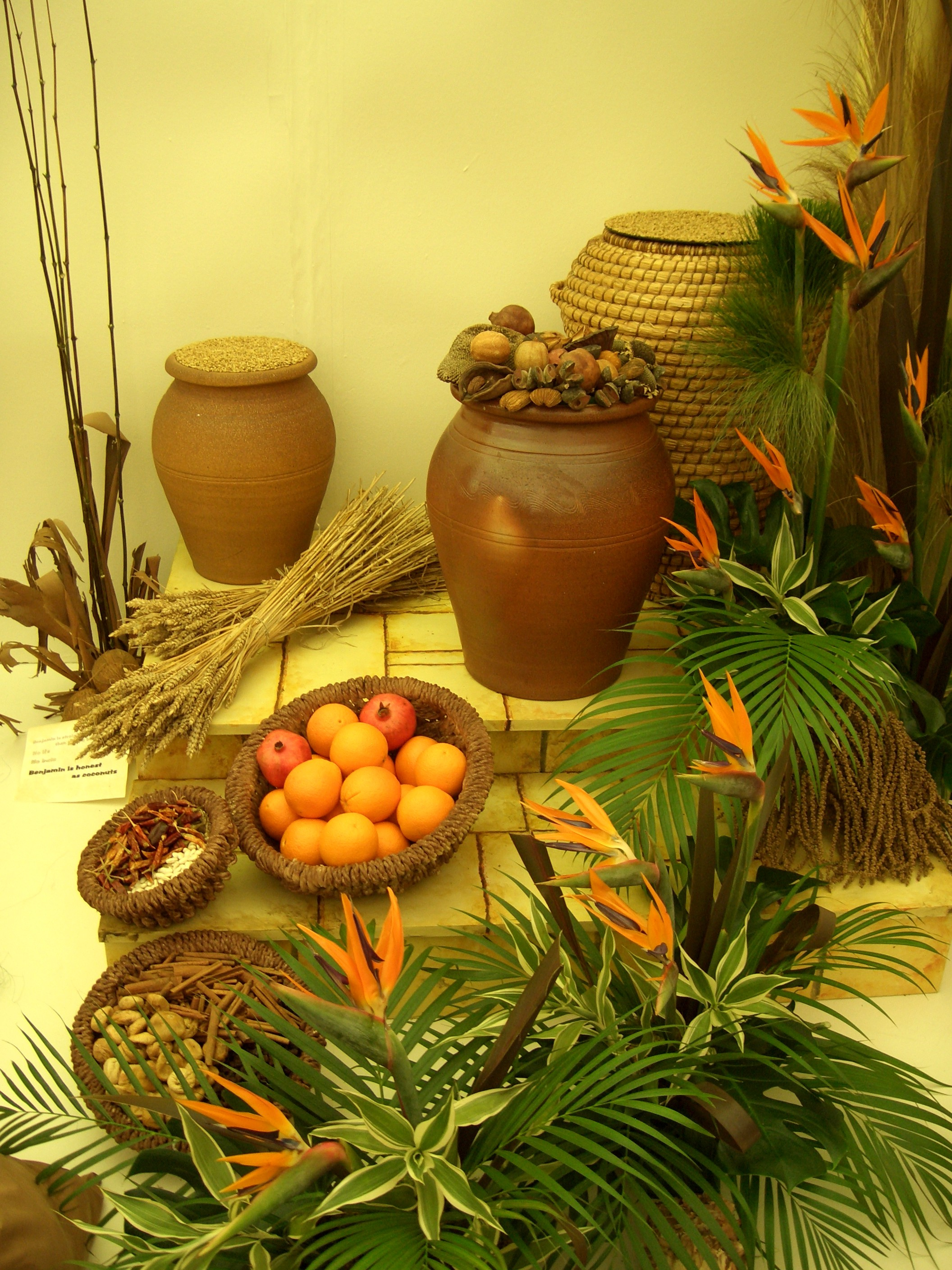 A flower arrangements at Harrogate Flower Show in the United Kingdom